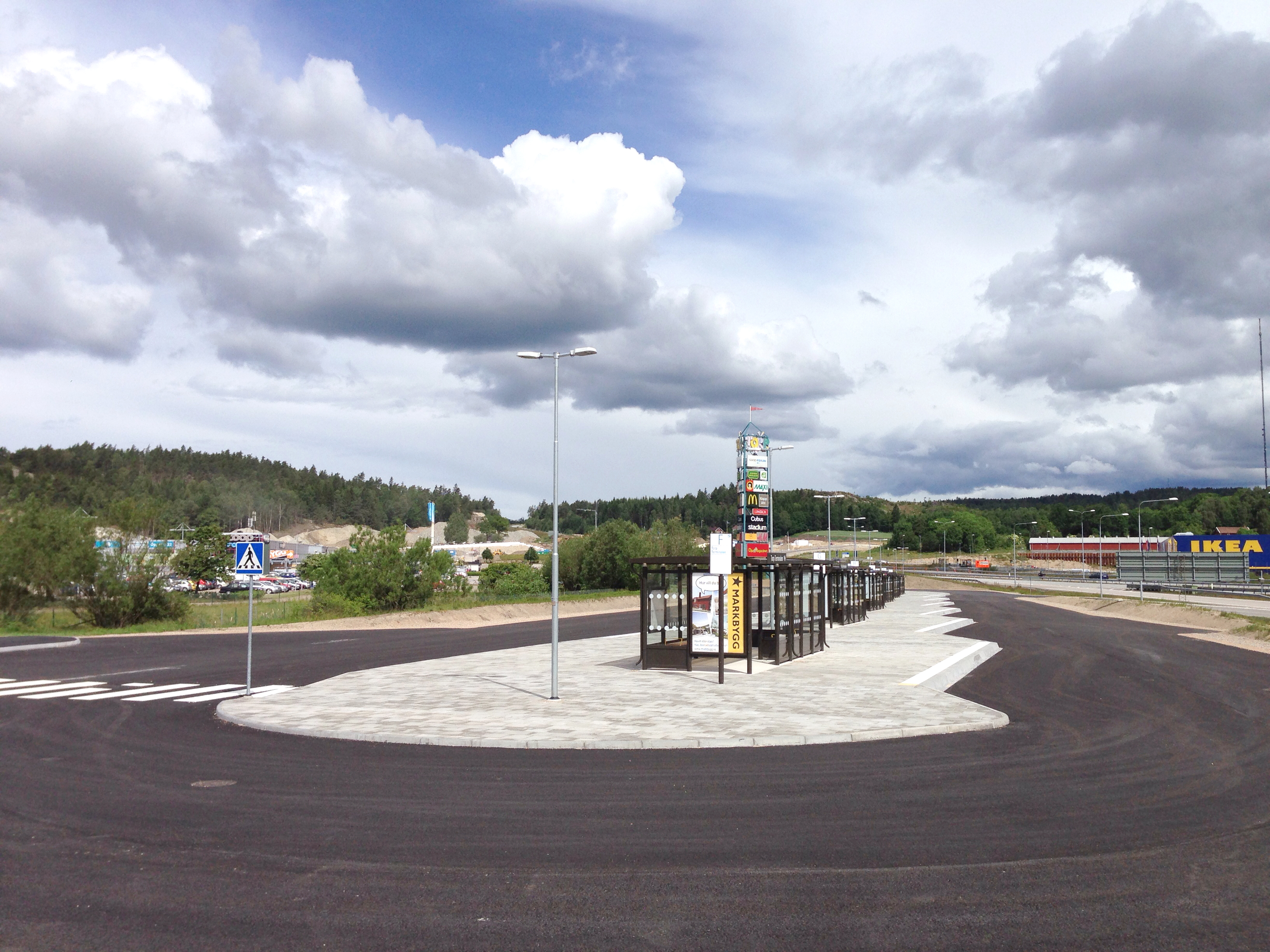 Bus terminal Uddevalla Torp shopping center